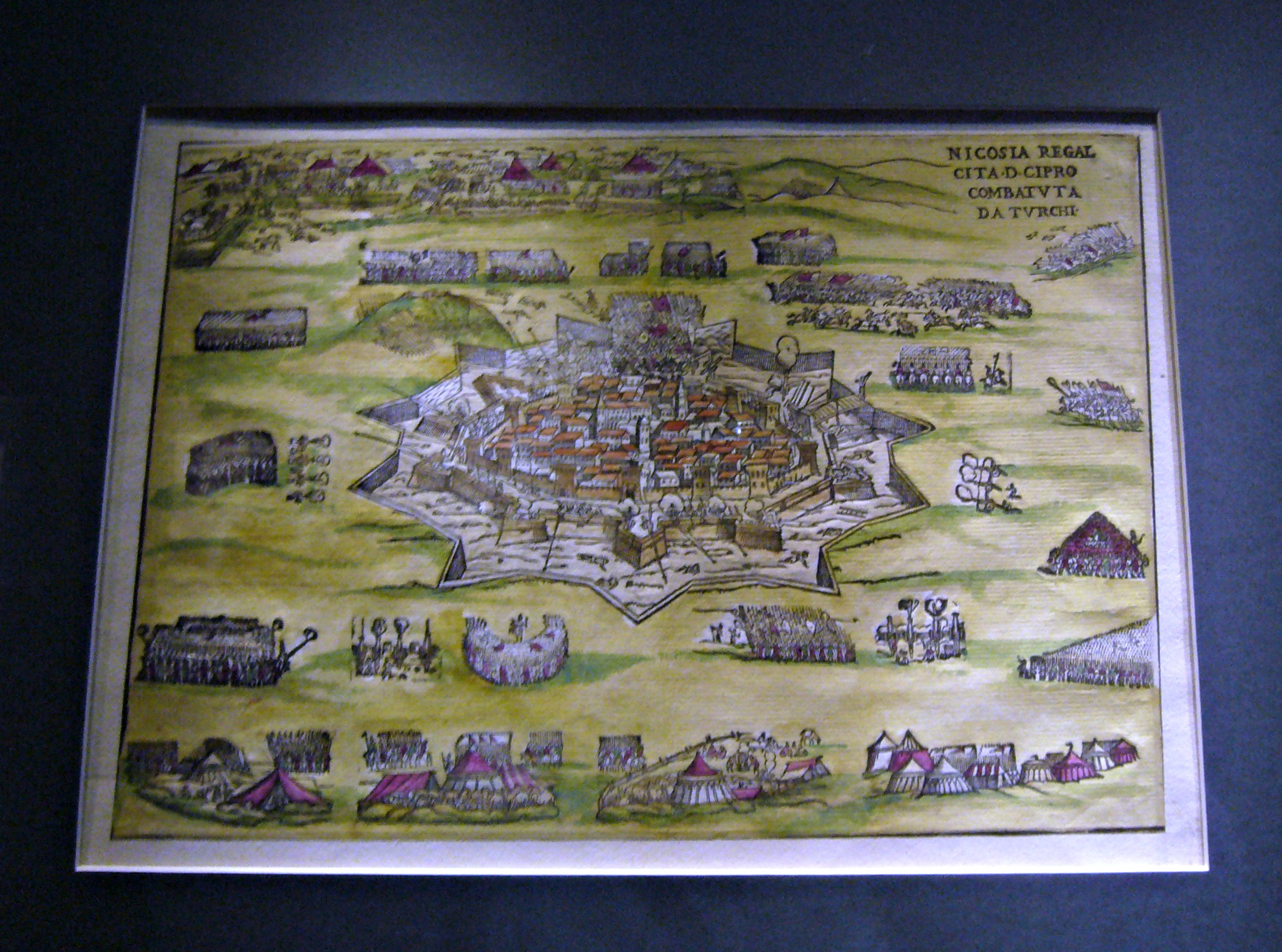 Map of Nicosia by anonymous cartographer, depicting the siege of the city - 1570 A.D. Leventis Municipal Museum, Nicosia, Cyprus